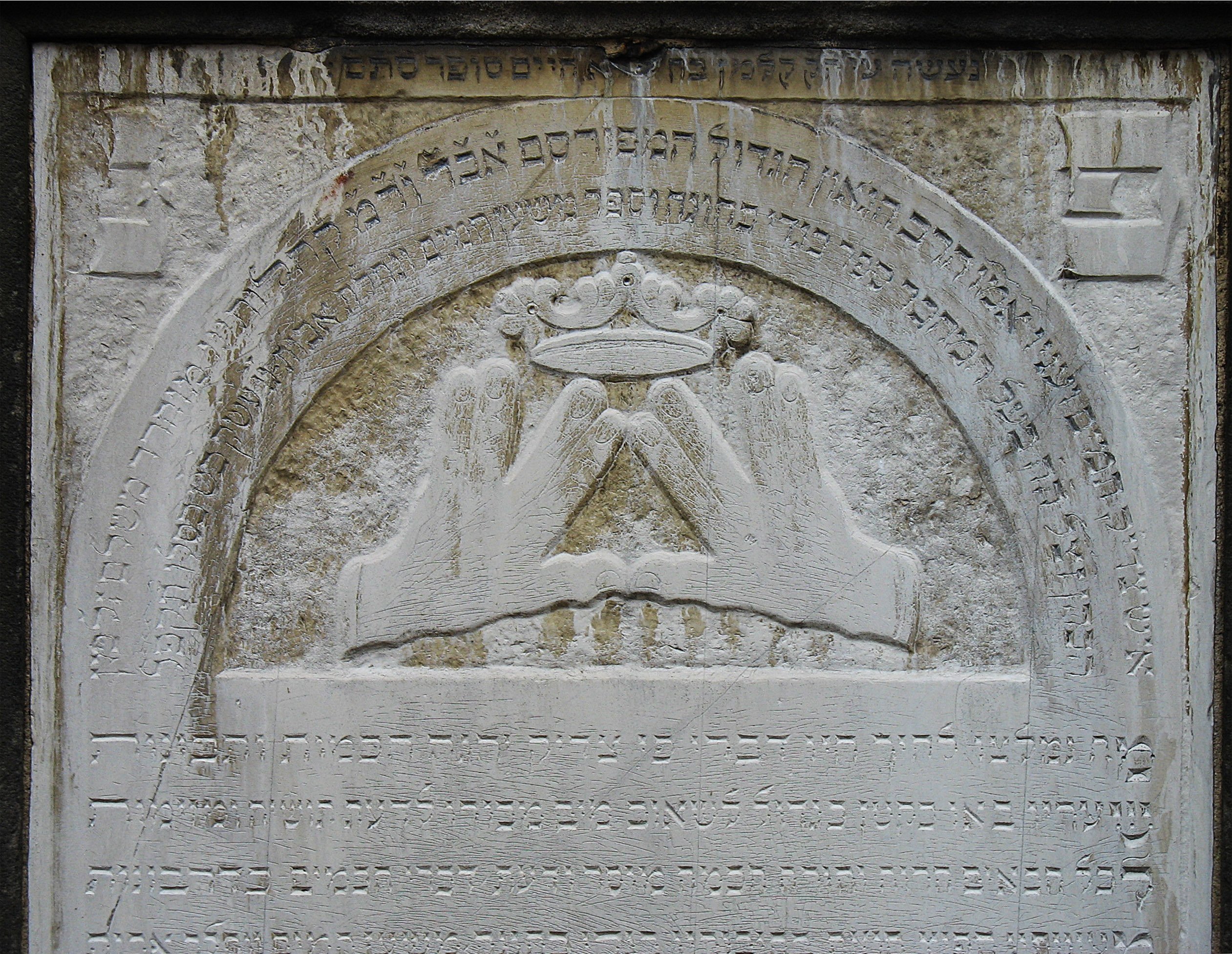 Grave of Rabbi and Kohen Meschullam Kohn (1739-1819) in Fürth (Bavaria, Germany). Some believe this duplicate of a previously found damaged artifact.